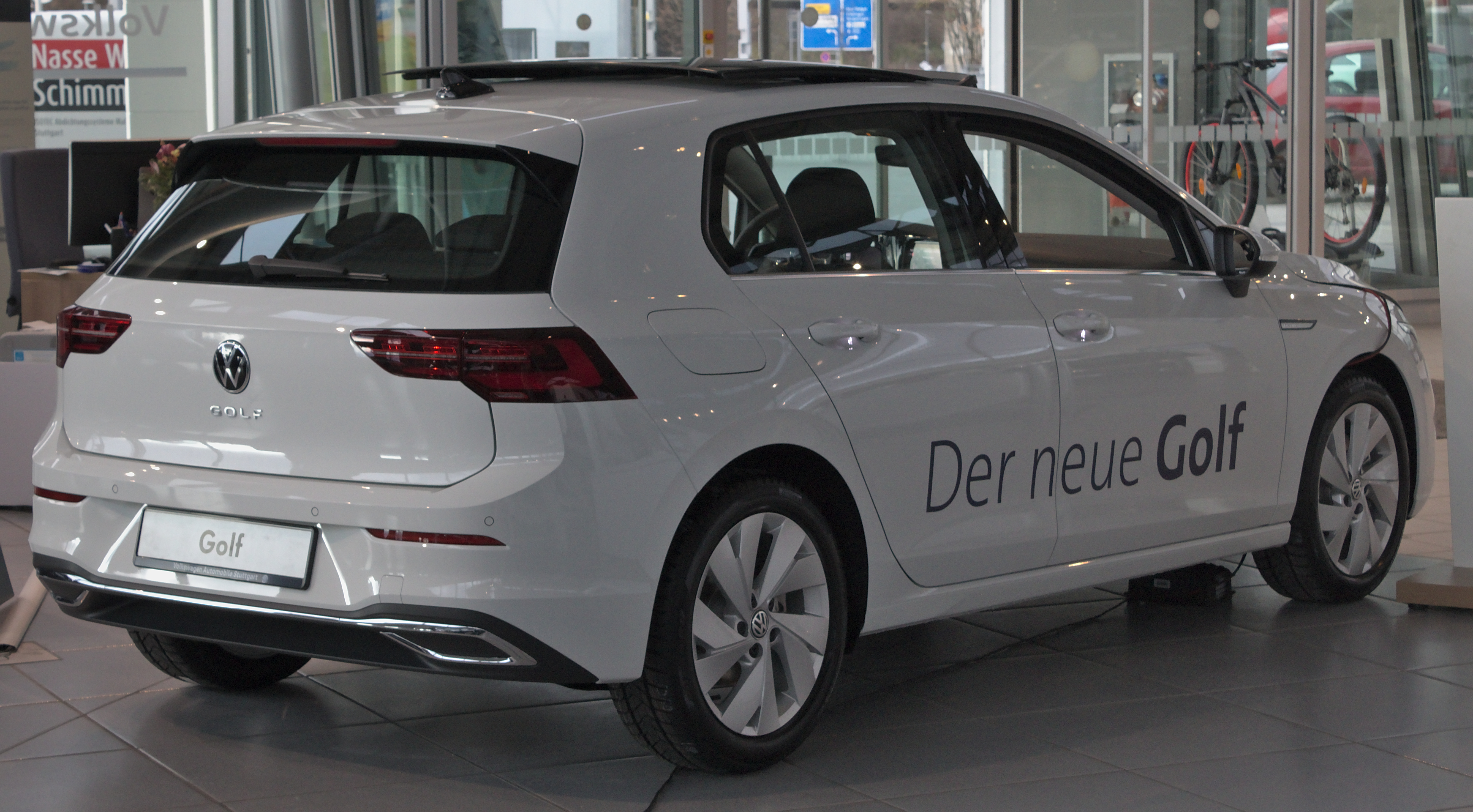 Volkswagen_Golf_VIII in Stuttgart-Vaihingen